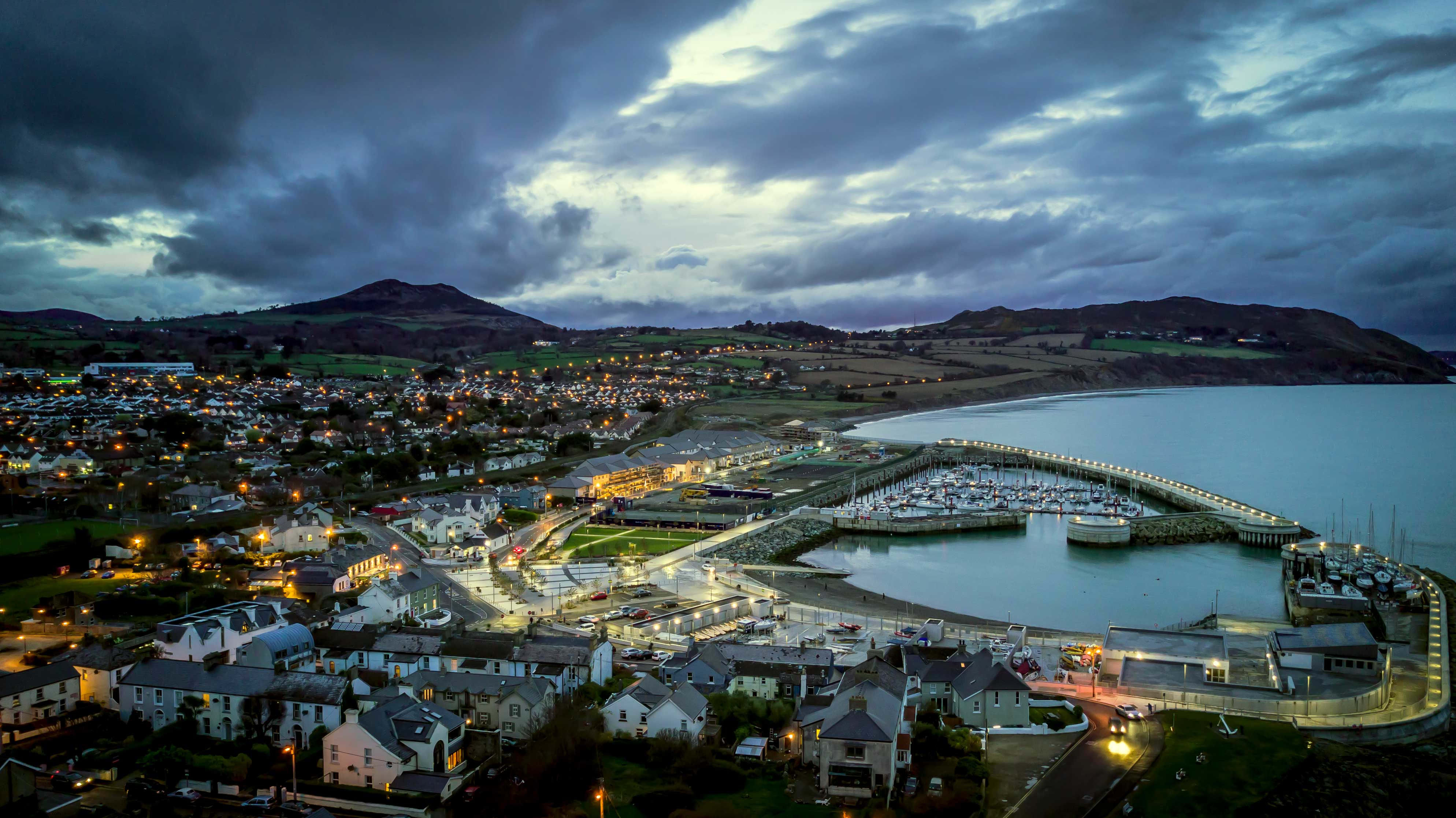 Greystones Harbour From Above